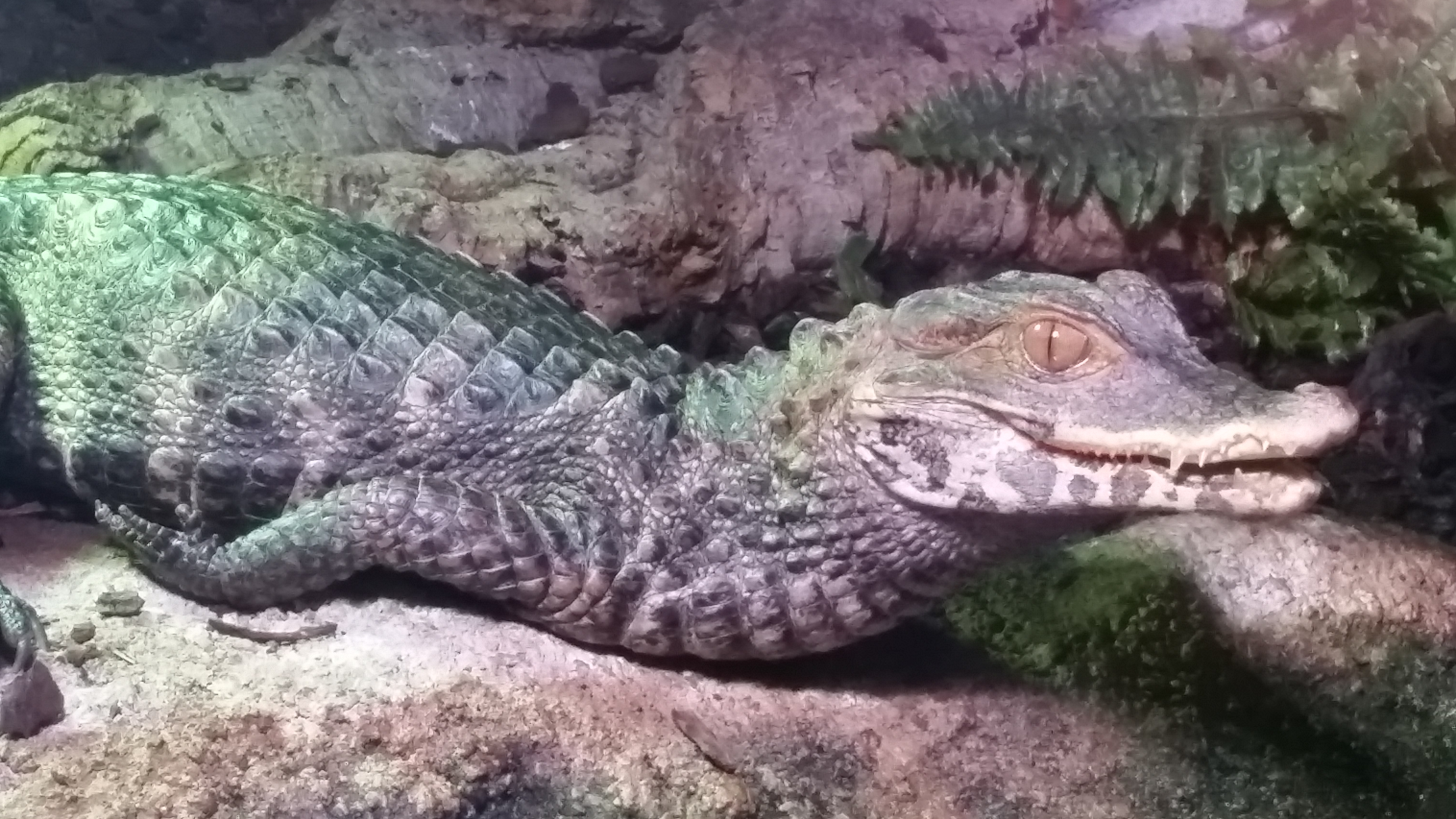 Cuvier's dwarf caiman (Paleosuchus palpebrosus) in Southend-on-Sea aquarium, England.